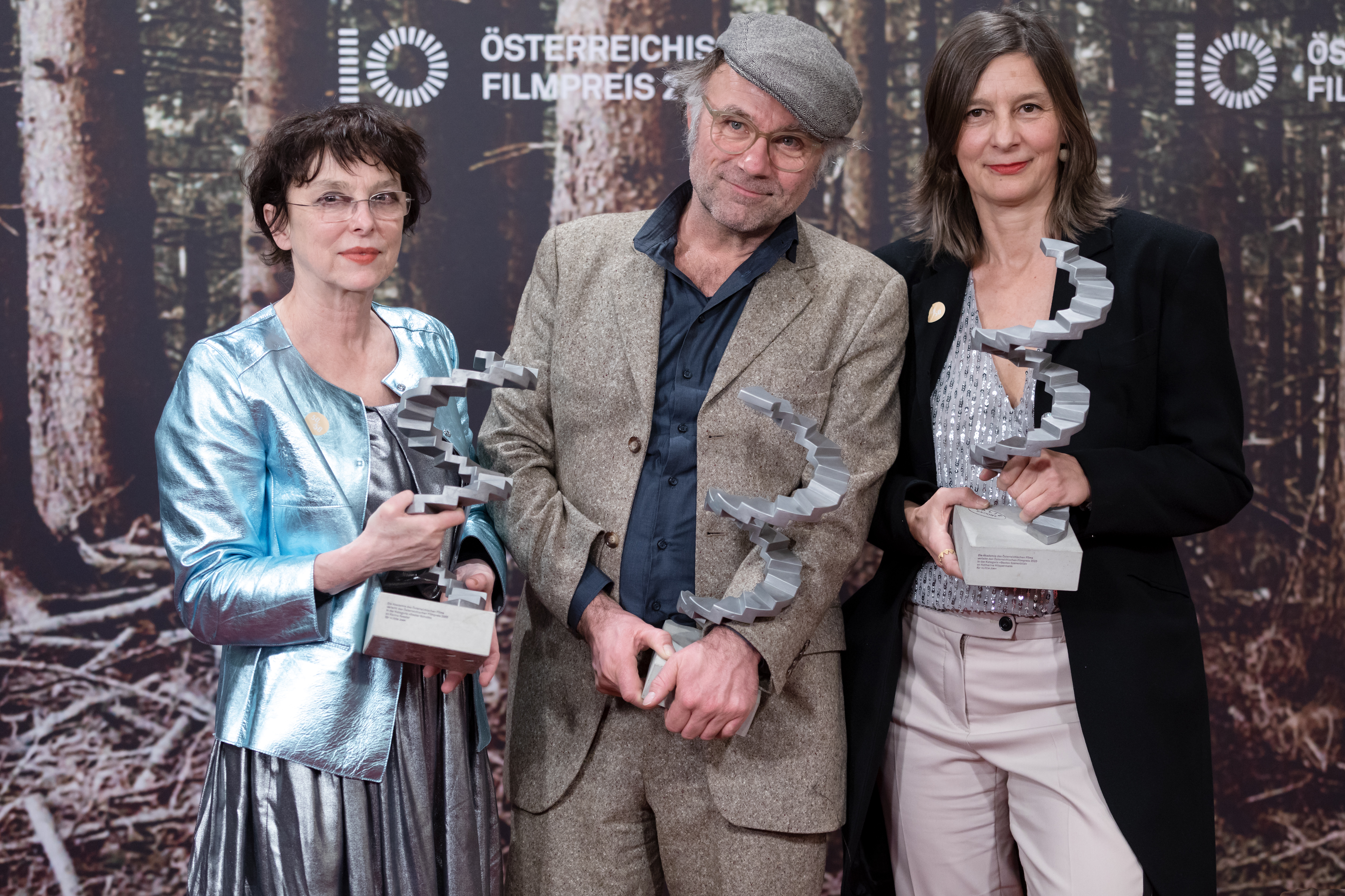 Karina Ressler, Heiko Schmidt and Katharina Wöppermann (Little Joe) at the Austrian Film Awards 2020 (Auditorium Grafenegg at Grafenegg Castle, Lower Austria,Austria).